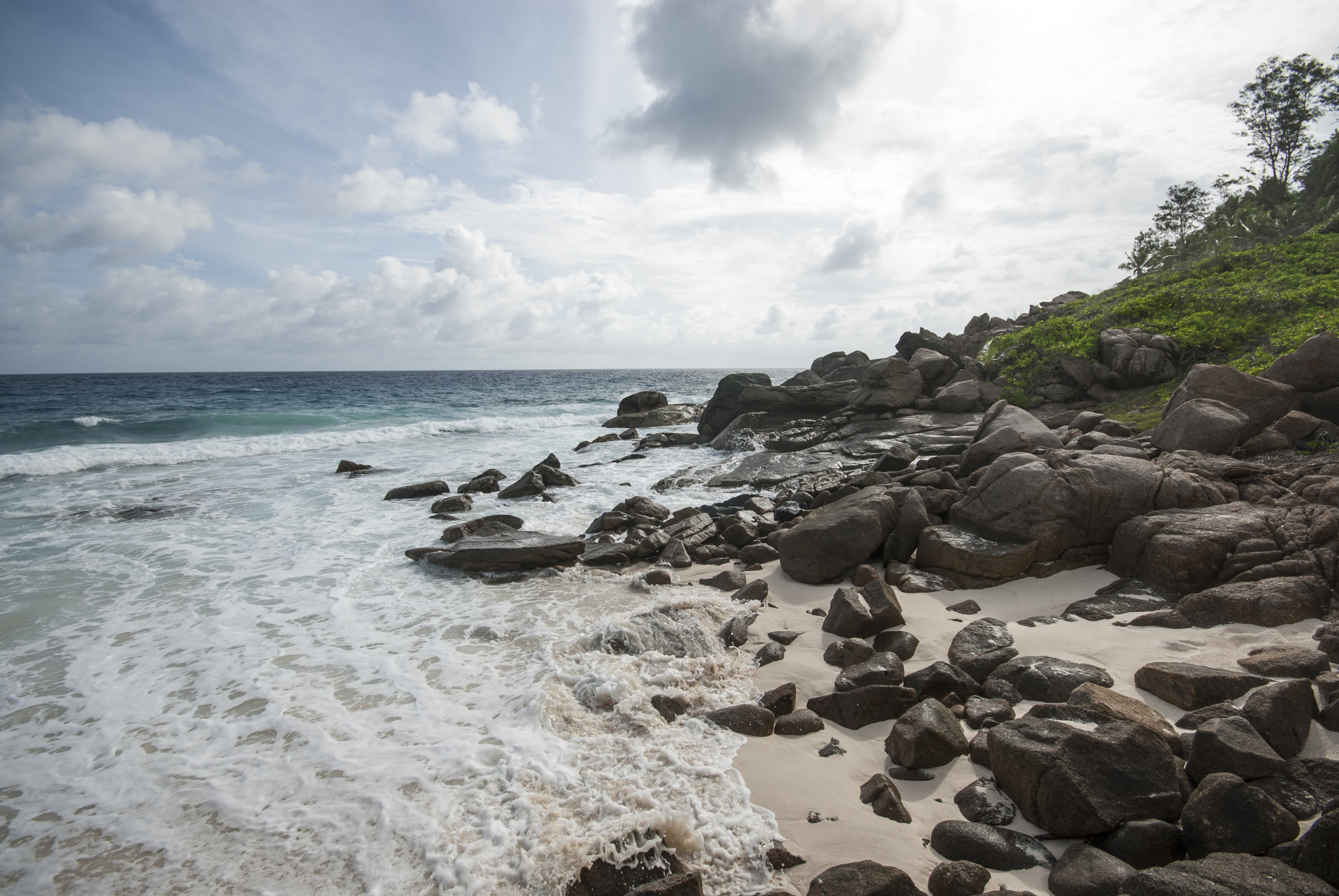 Anse Cachée, Takamaka area, Seychelles, Nov 2011